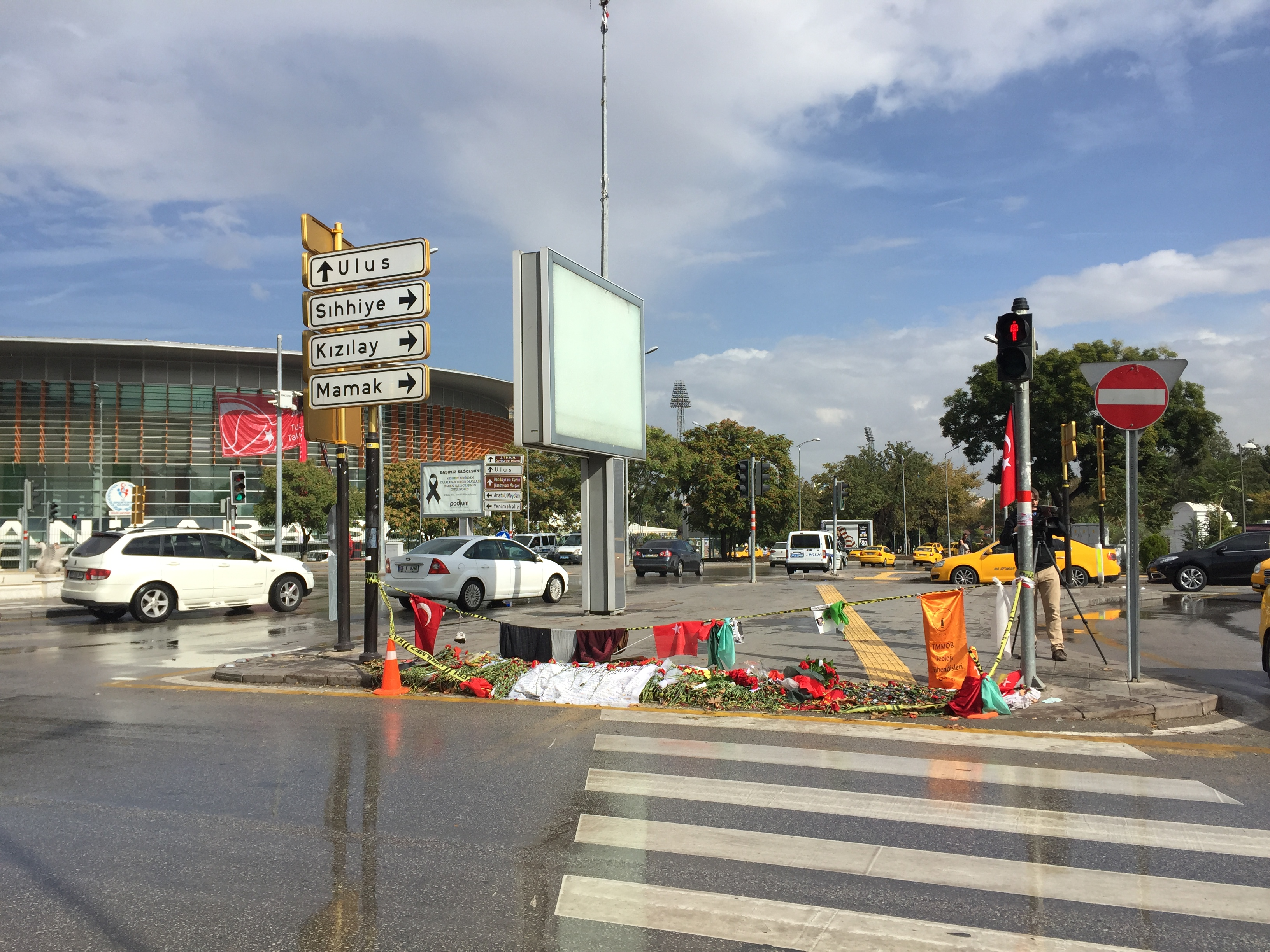 Mourning after the 2015 Ankara bombings: flowers in front of the Central railway station